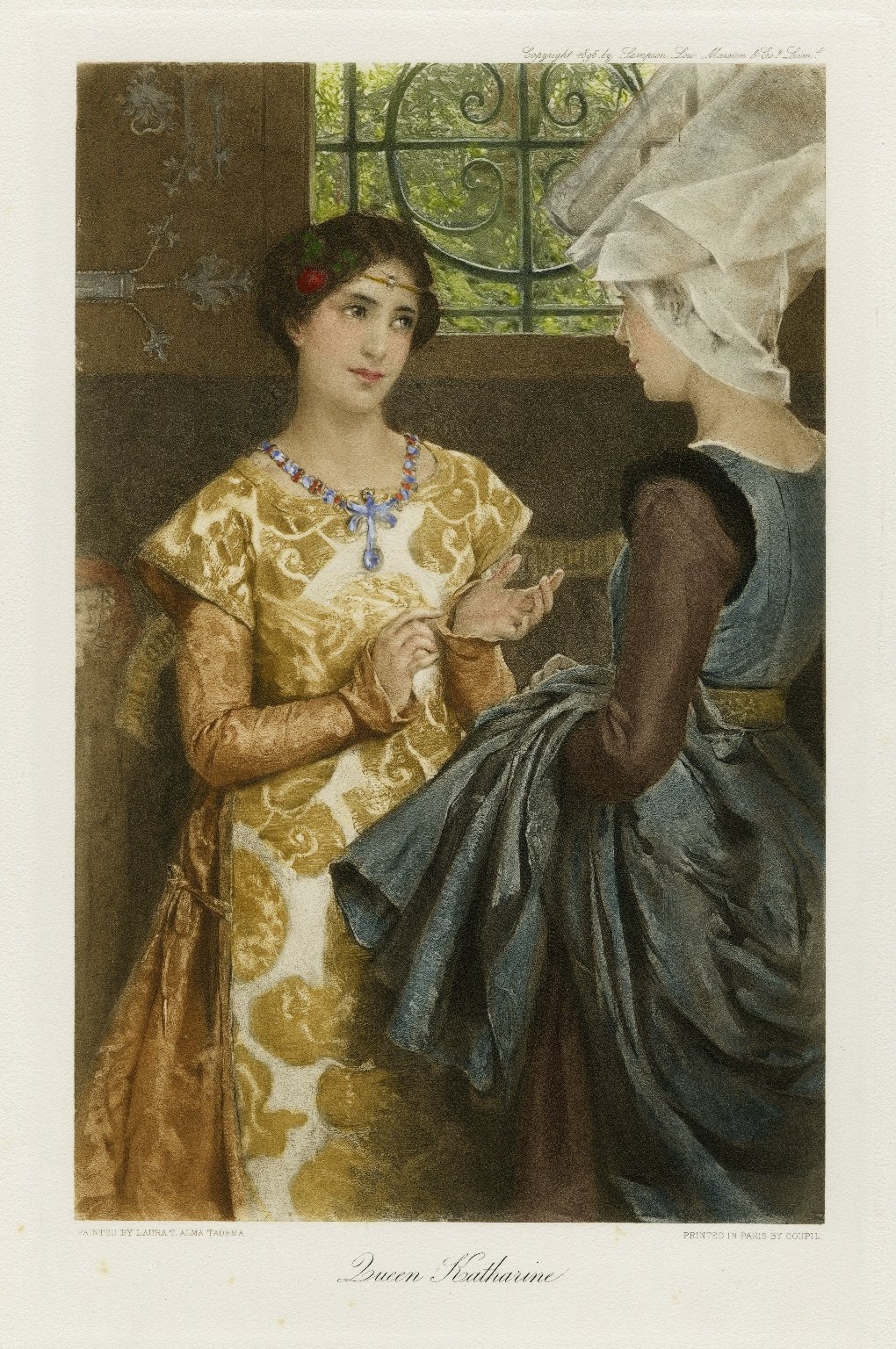 Image of Queen Katharine , from The Graphic Gallery of Shakespeare's Heroines